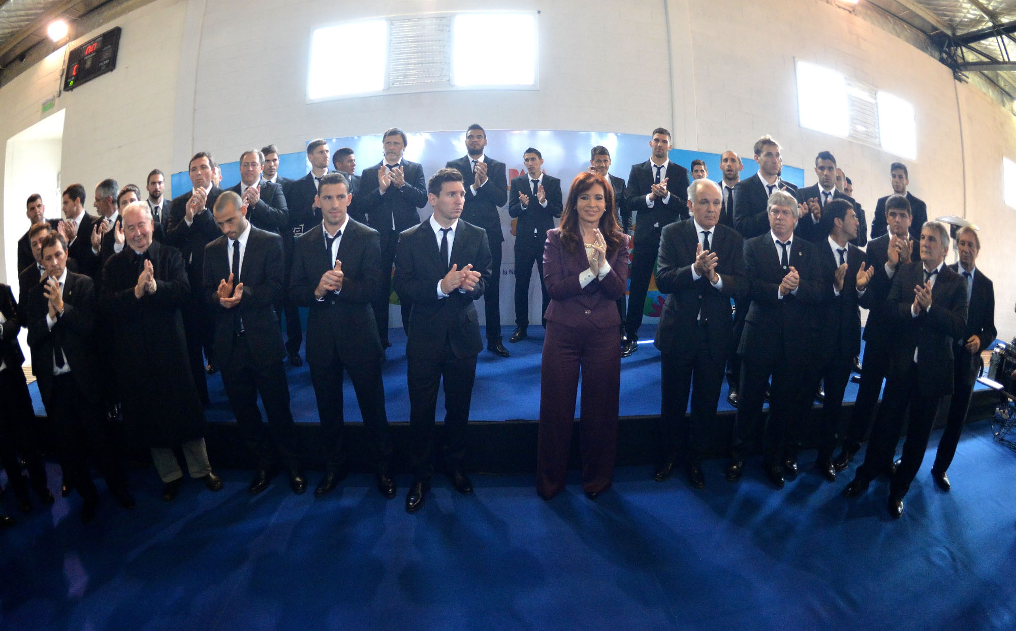 President Cristina Fernandez greets the staff of the Argentina National Team, second in the world Brasil 2014, staff and leaders of AFA.